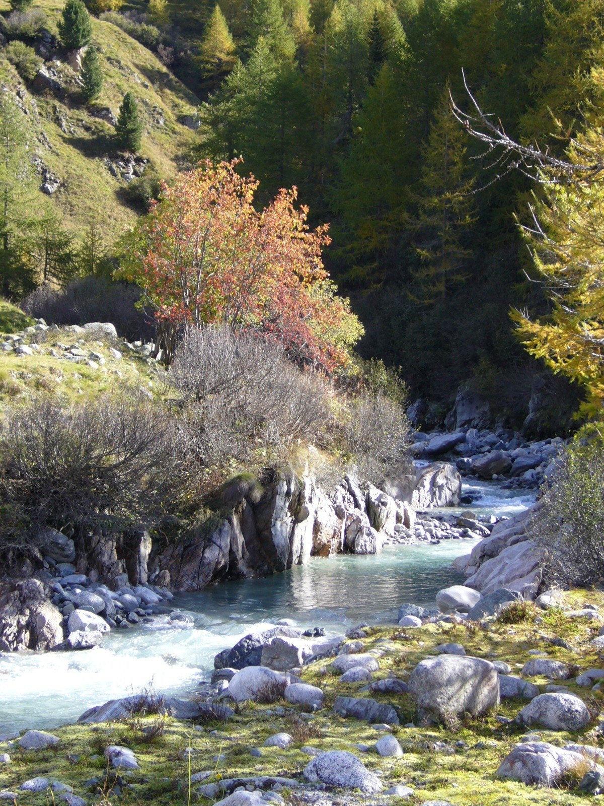 Switzerland, Val Bregaglia nr. Maloja, River Orlegna nr. bridge by Salecina Foundation/ Orden dent, beginning of Val Forno